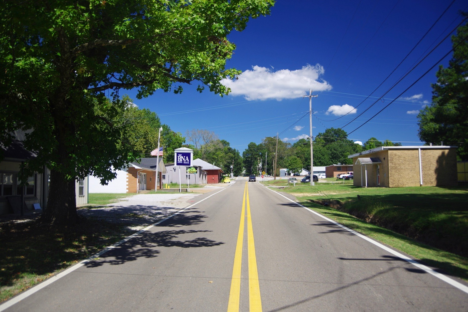 View along Springdale Avenue in Myrtle, Mississippi, United States.